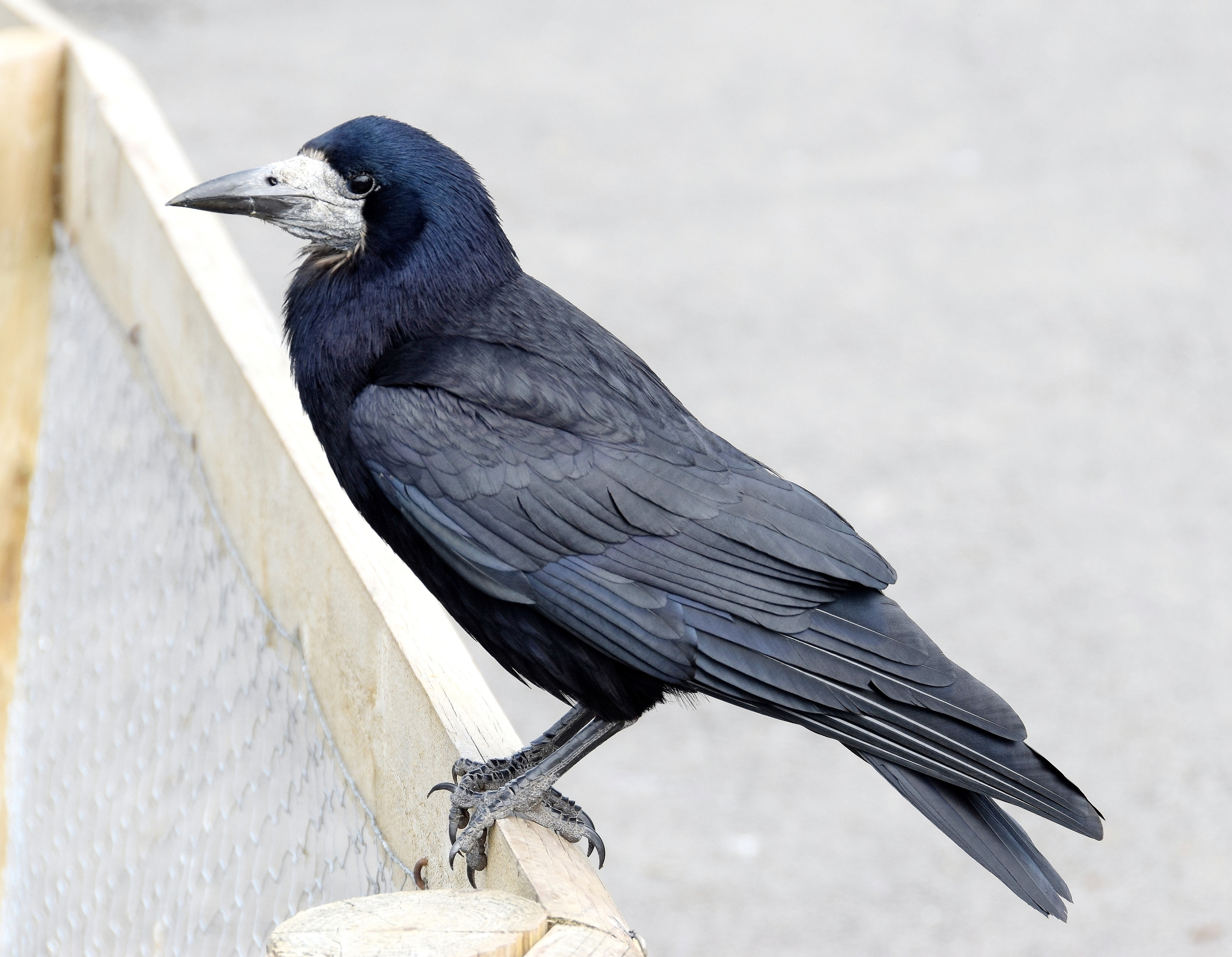 Rook at Slimbridge Wetland Centre, Gloucestershire, England.